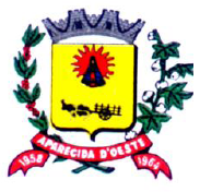 Brasão de Aparecida d'Oeste